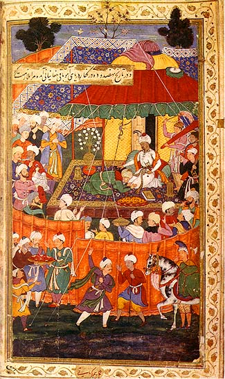 a painting from Baburnama, Memoirs of Babur